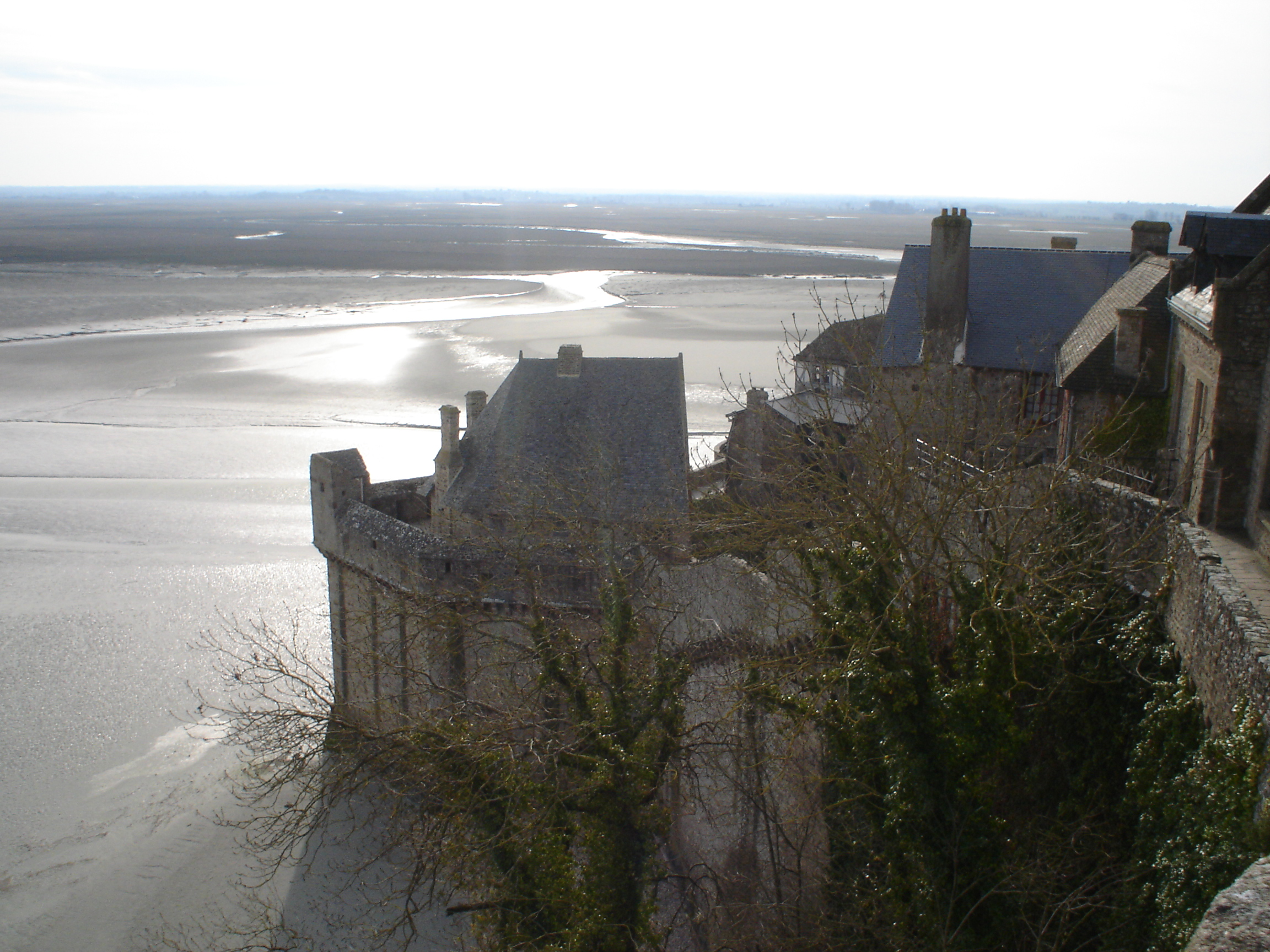 A beautiful picture of the outlook of Mont Saint Michel. Taken while I was visiting France in March, 2006.